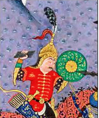 Painting of Barman in The Shahnama of Shah Tahmasp